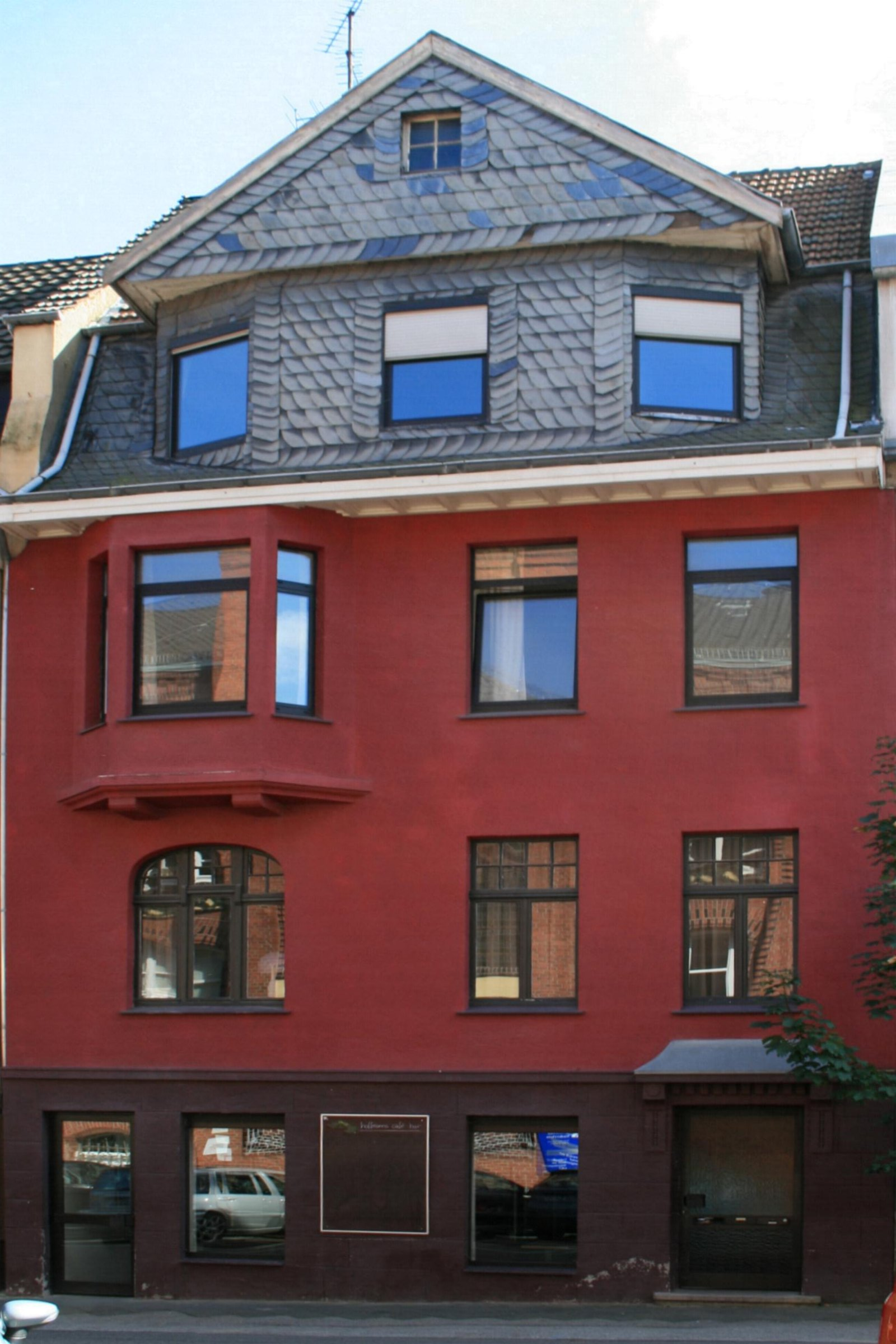 Cultural heritage monument No. W 028 in Mönchengladbach